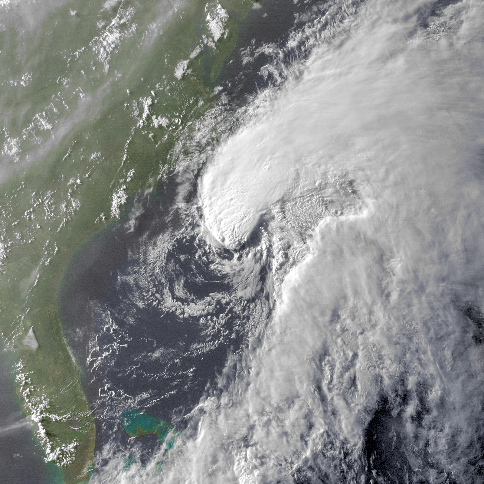 Subtropical Storm Beryl on May 25, 2012